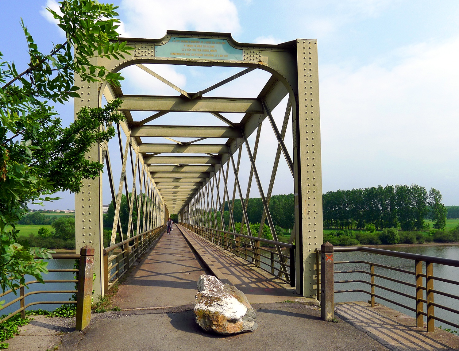 Pruniers bridge (Maine-et-Loire, France)